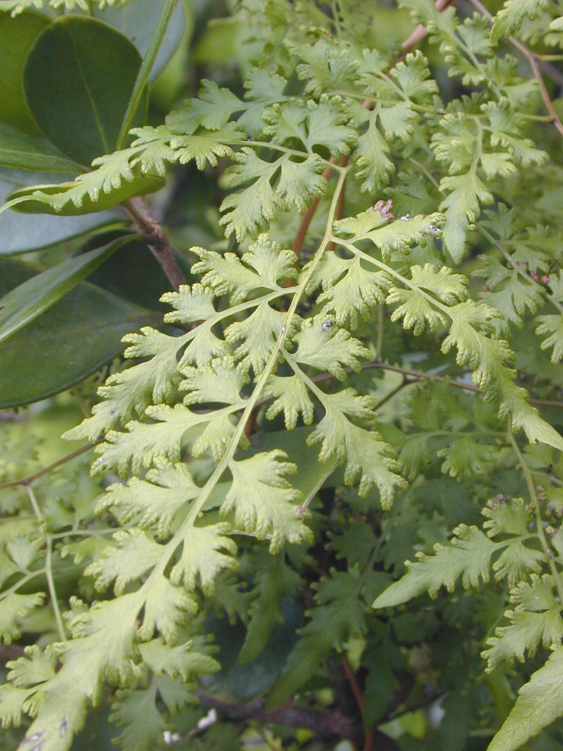 The Climbing Fern, Lygodium japonicum, photographed in Hawai'i where it is sparingly naturalized. Photograph by Eric Guinther, released under the GNU Free Documentation License.